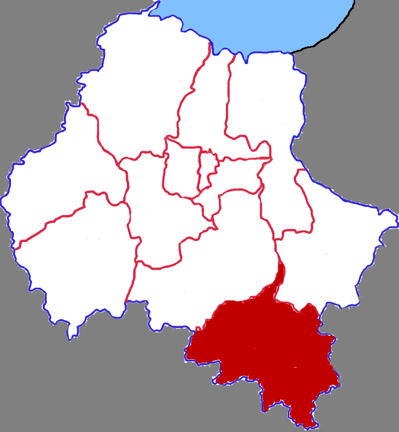 Location of Zhucheng county-level city in Weifang City, China